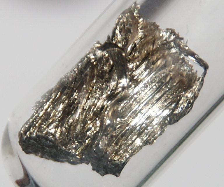 Ultrapure sublimated samarium, 2 grams. Original size in cm: 0.8 x 1.5